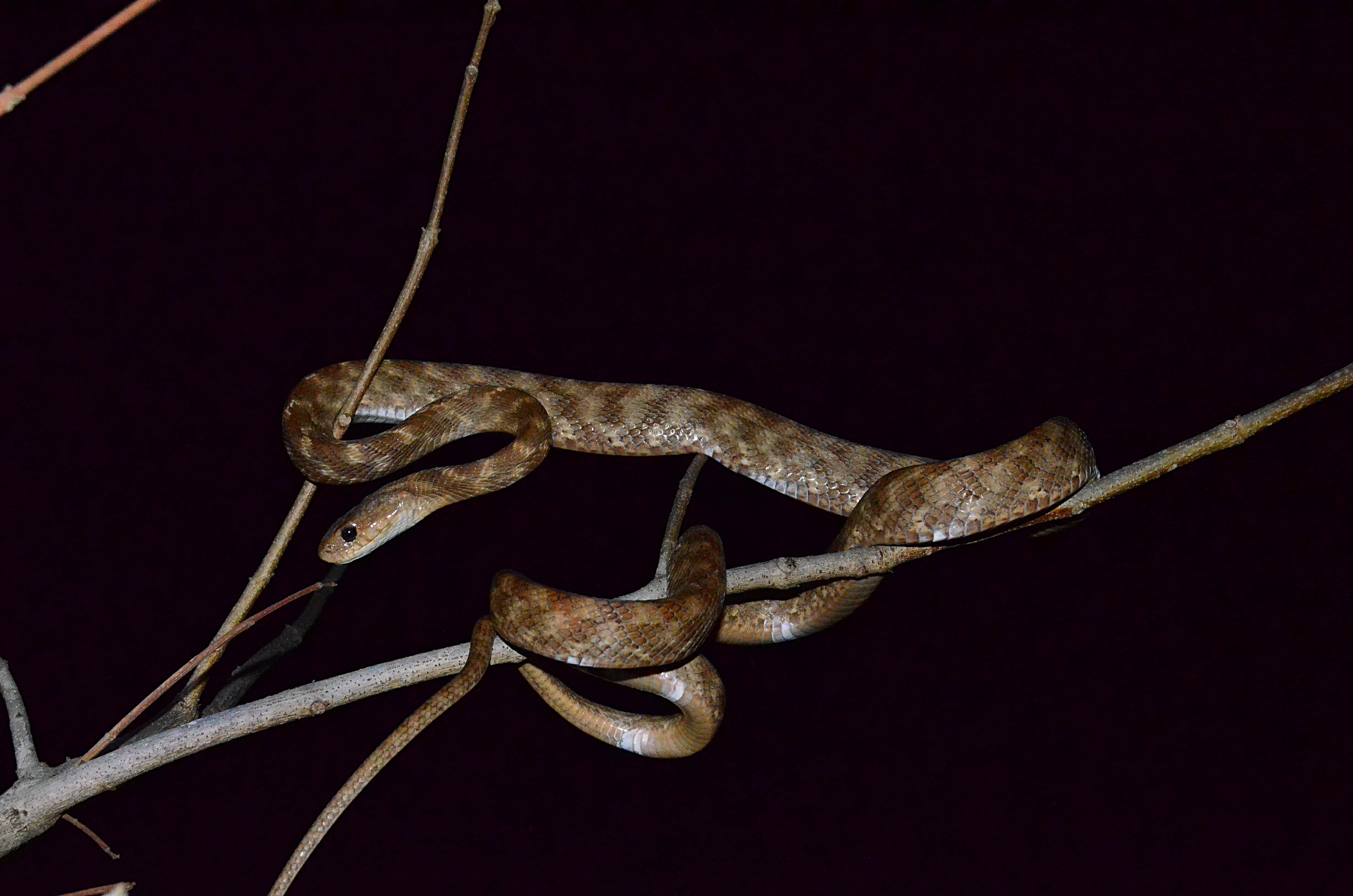 Picture was taken in Dang forest (No handling involved)